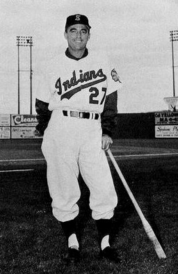 Professional baseball player Preston Gomez